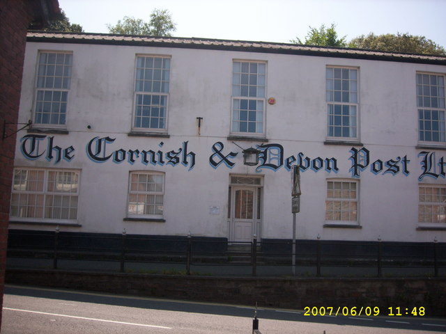 A Little Bit of Old Cornwall I like the history behind this building, and what goes on in there